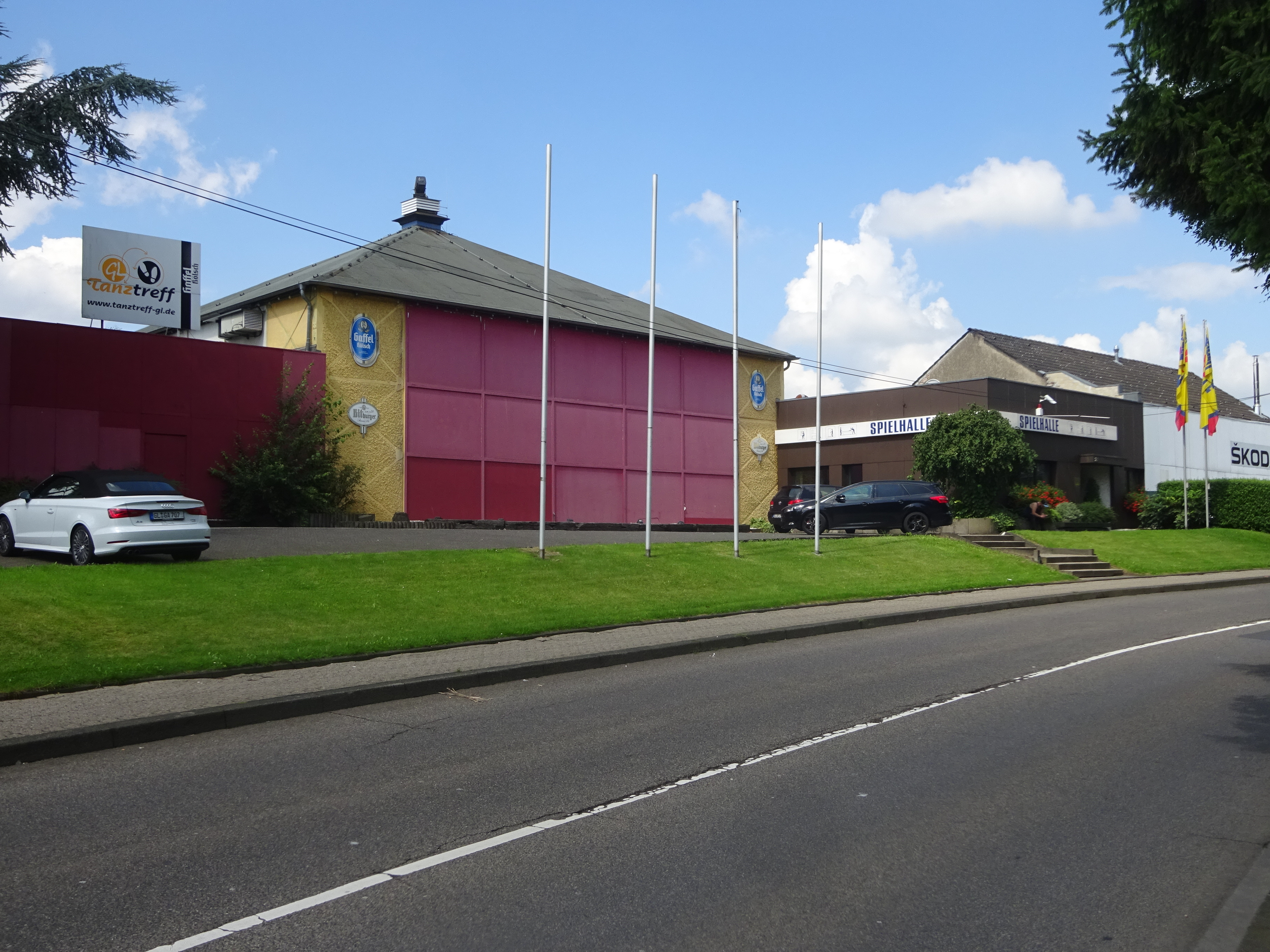 street front